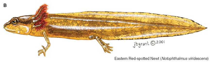 Larval form of the eastern newt (Notophthalmus viridescens).